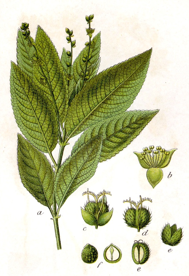 Mercurialis perennis L. Original Caption Wald-Bingalkraut, Mercurialis perennis